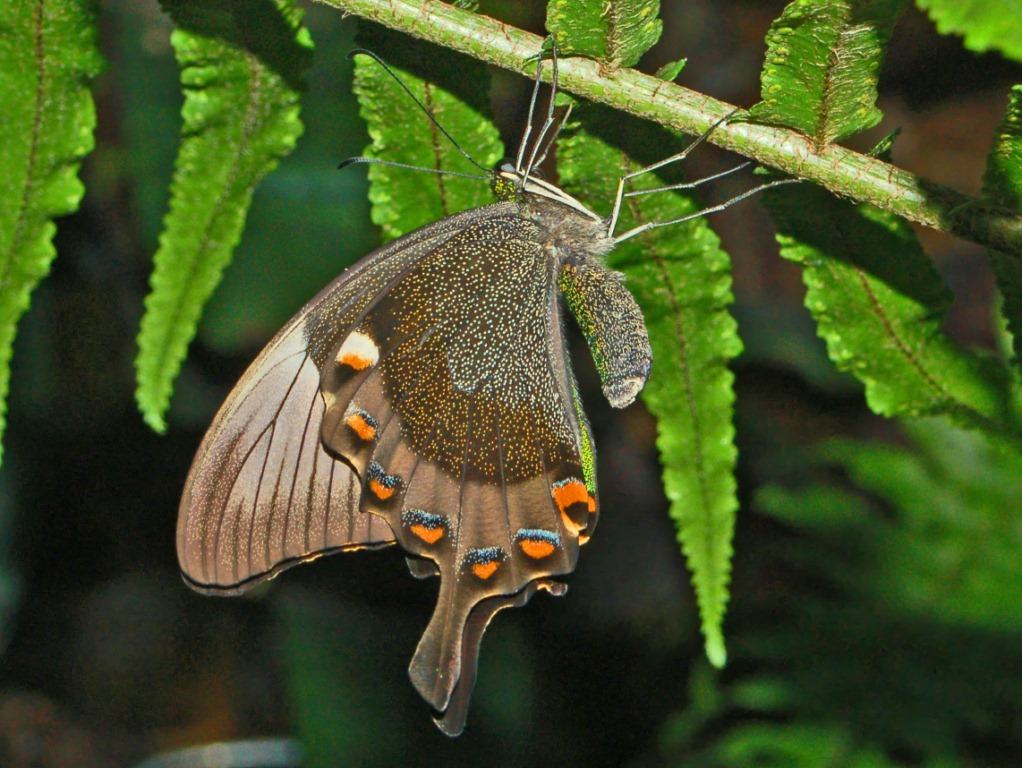 Papilio palinurus - Niagara Falls Conservatory